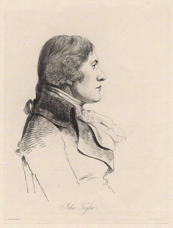 Portrait of John Taylor (1757–1832), English oculist and journalist.